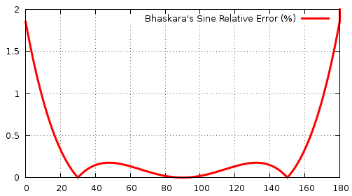 Absolute Relative Error of Bhaskara’s Sine Function Over [0:180]